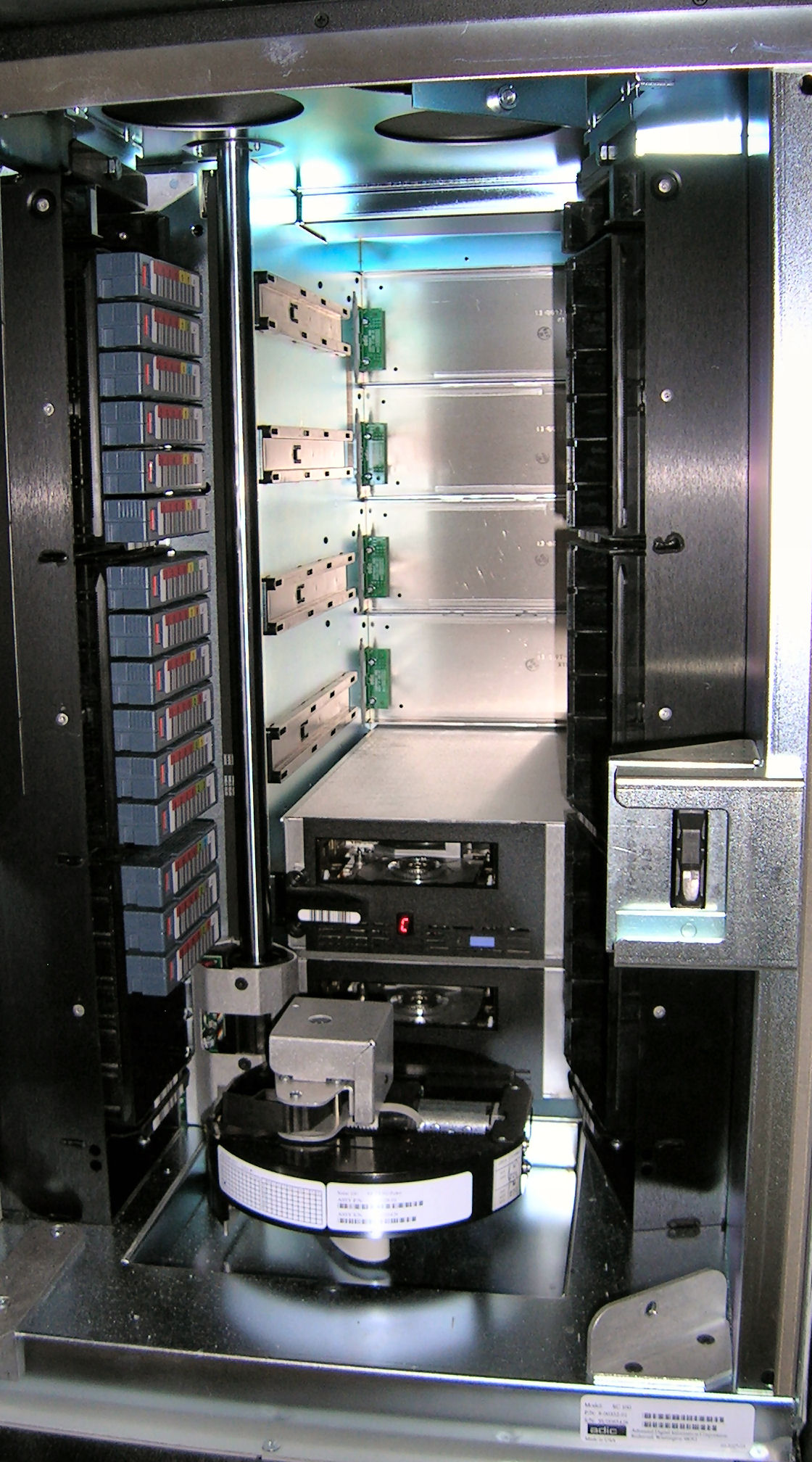 ADIC Scalar 100 Tape Library Author: Aaron Kuhn